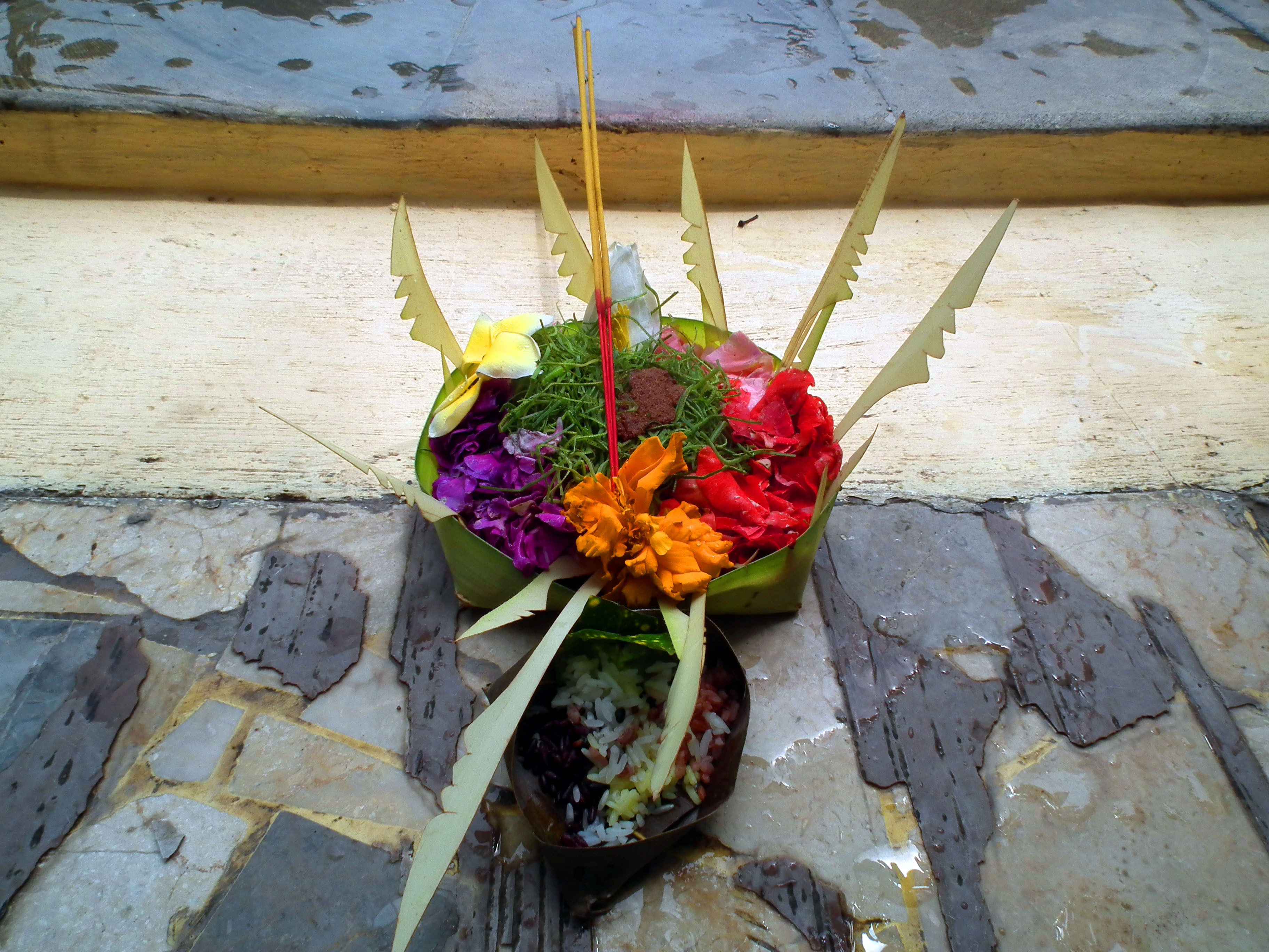 Typical Balinese offering to the Gods, placed around houses morning and evening.